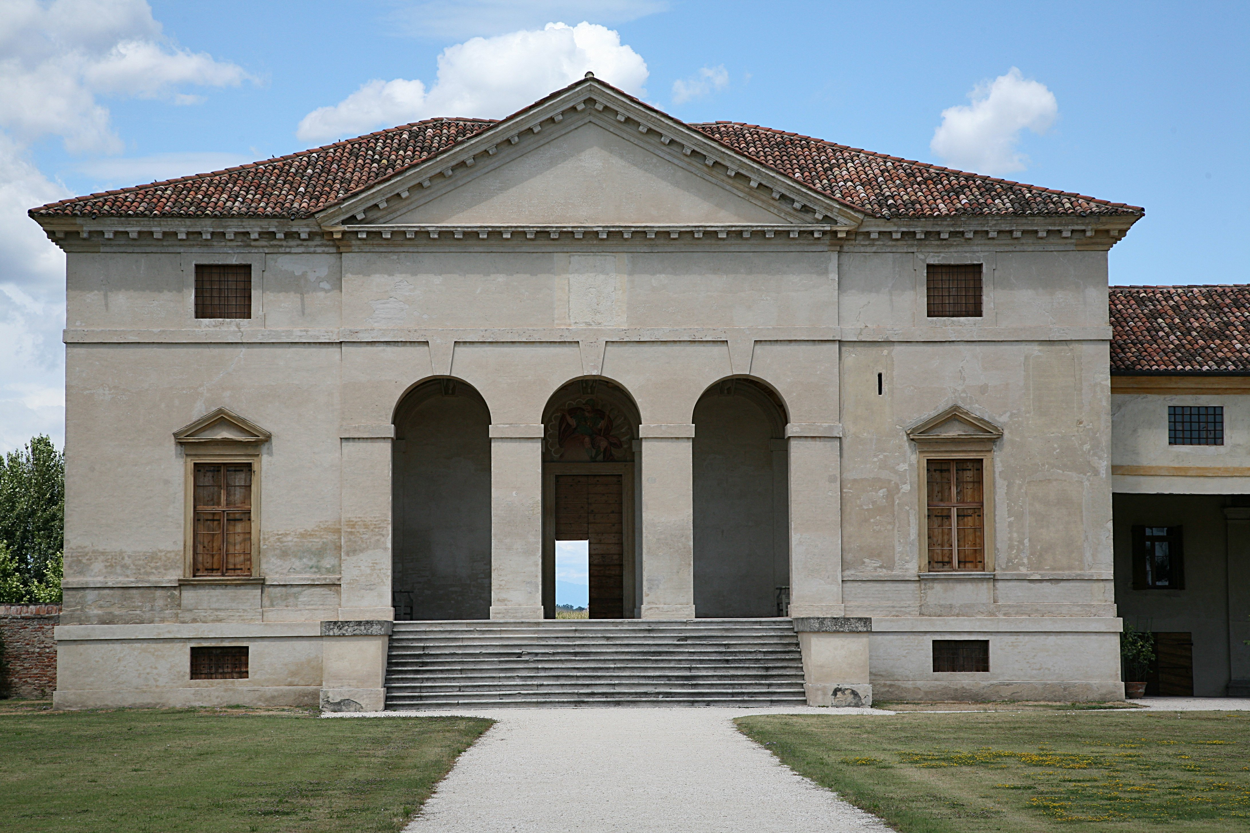 A Villa at Finale of Agugliaro in Italy. Designed by Andrea Palladio